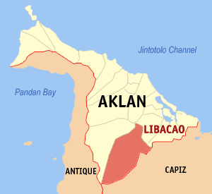 Map of Aklan showing the location of Libacao